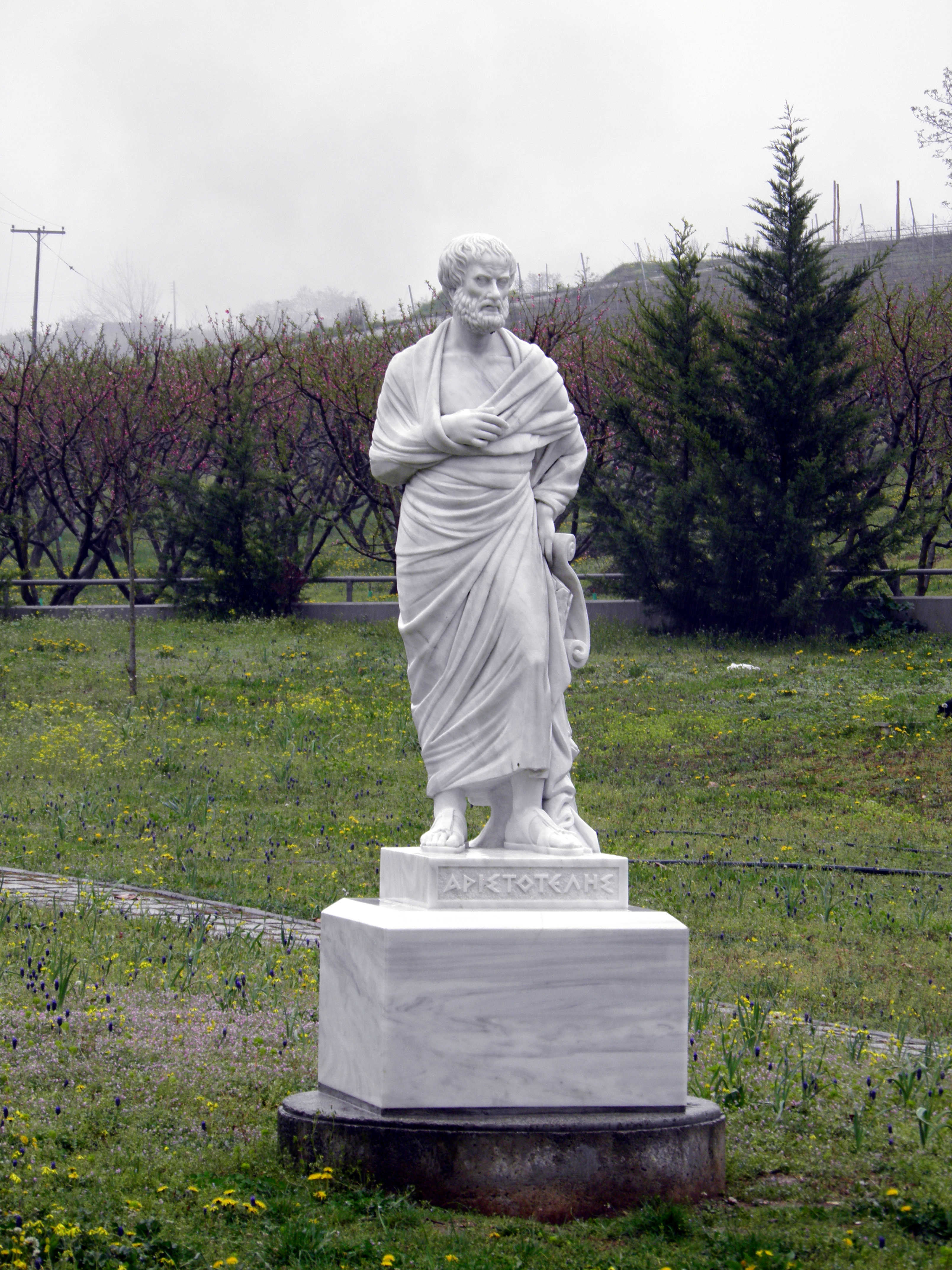 En 342/2 BC, Philipp King of Macedon invited the philosopher Aristotle to Mieza to tutor this 13 year old son, Alexander. Aristotle, the great thinker, scientist and philosopher who was to be hailed as the world's greatest intellectual figure was not yet particularly well known, but he enjoyed a distinguished reputation in Athens and elsewhere. The « School », as Plutarch calls it, was established in the Nymphaion, a sanctuary dedicated to the water nymphs, near the city of Mieza, in an enchanting location with luxuriant vegetation and natural springs, which is equally idyllic even today. Alexander and a select circle of students, all scions of noble Macedonian families, attended the School for two years. Her, in the shady covered walks and on the stone seats mentioned by Plutarch, the future world ruler was initiated into philosophy and poetry, mathematics and the natural sciences; and we know that he carried with him a copy of the Iliad with Aristotle had given him with a handwritten dedication until the end of his life and found it an inexhaustible source of inspiration. In 340 BC, the 16 year old student left the School and returned to Pella in order to act as regent while his father was away in Perinthos and Byzantion. Although the School operated for such a short time, hos bond with his mentor remained strong, as did the influence of Aristotelian thought on his education, his philosophy of lief regarding ethics and politics, and the development of his personality, one of the most fascinating personalities in the ancient world.